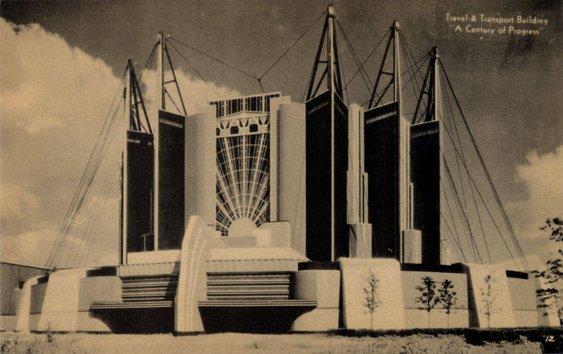 Travel & Transport Building, " A Century Of Progress. "